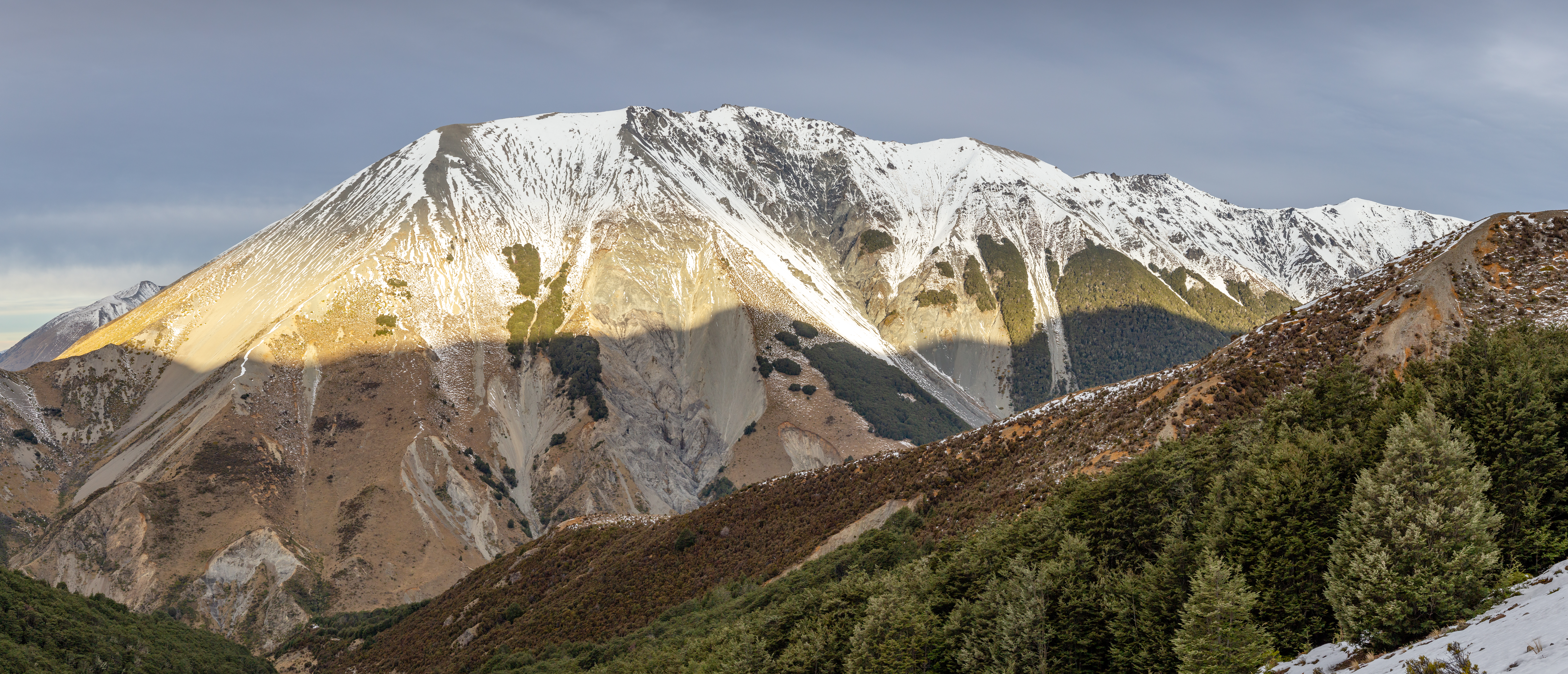 Baldy Hill from Snowslide Valley, Craigieburn Range, Canterbury, New Zealand